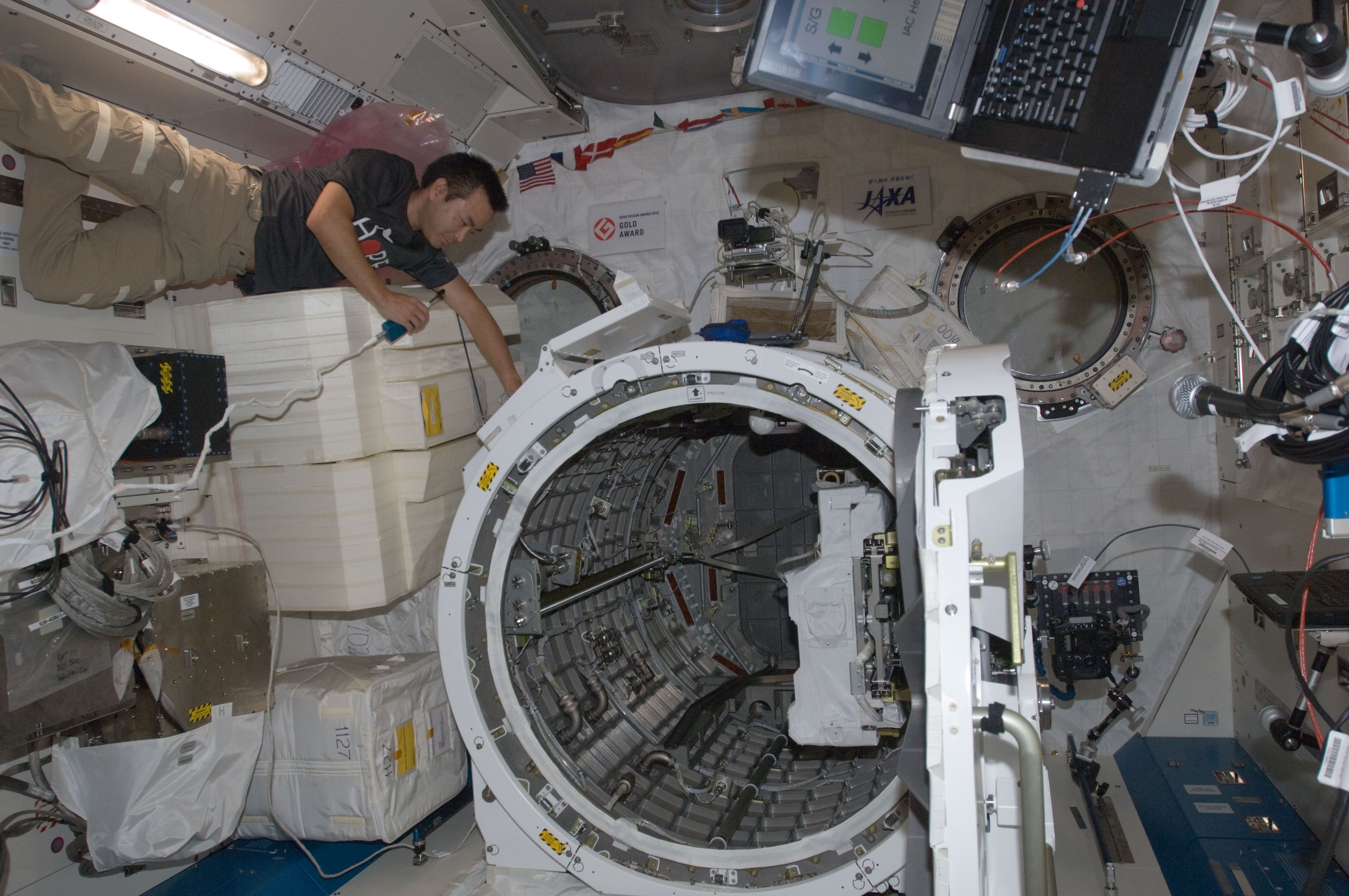 Japan Aerospace Exploration Agency astronaut Aki Hoshide, Expedition 32 flight engineer, talks on a microphone while working near the airlock in the Kibo laboratory of the International Space Station. The JEM Robotic Maneuvering System Multi-Purpose Experiment Platform (JEMRMS MPEP) is visible in the airlock.